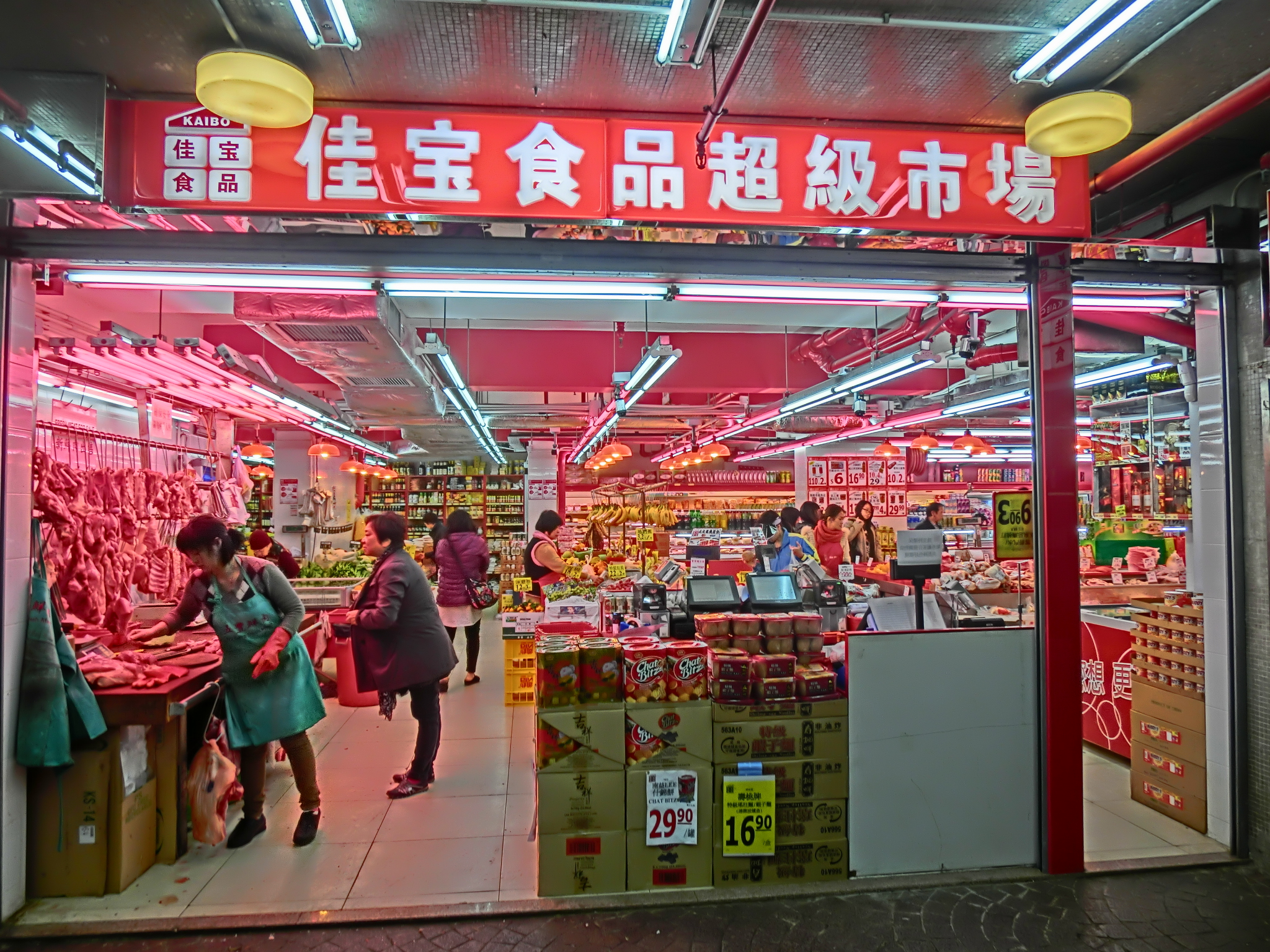 荃灣 海濱花園, Riviera Gardens, Yi Hong Street, Tsuen Wan, Hong Kong